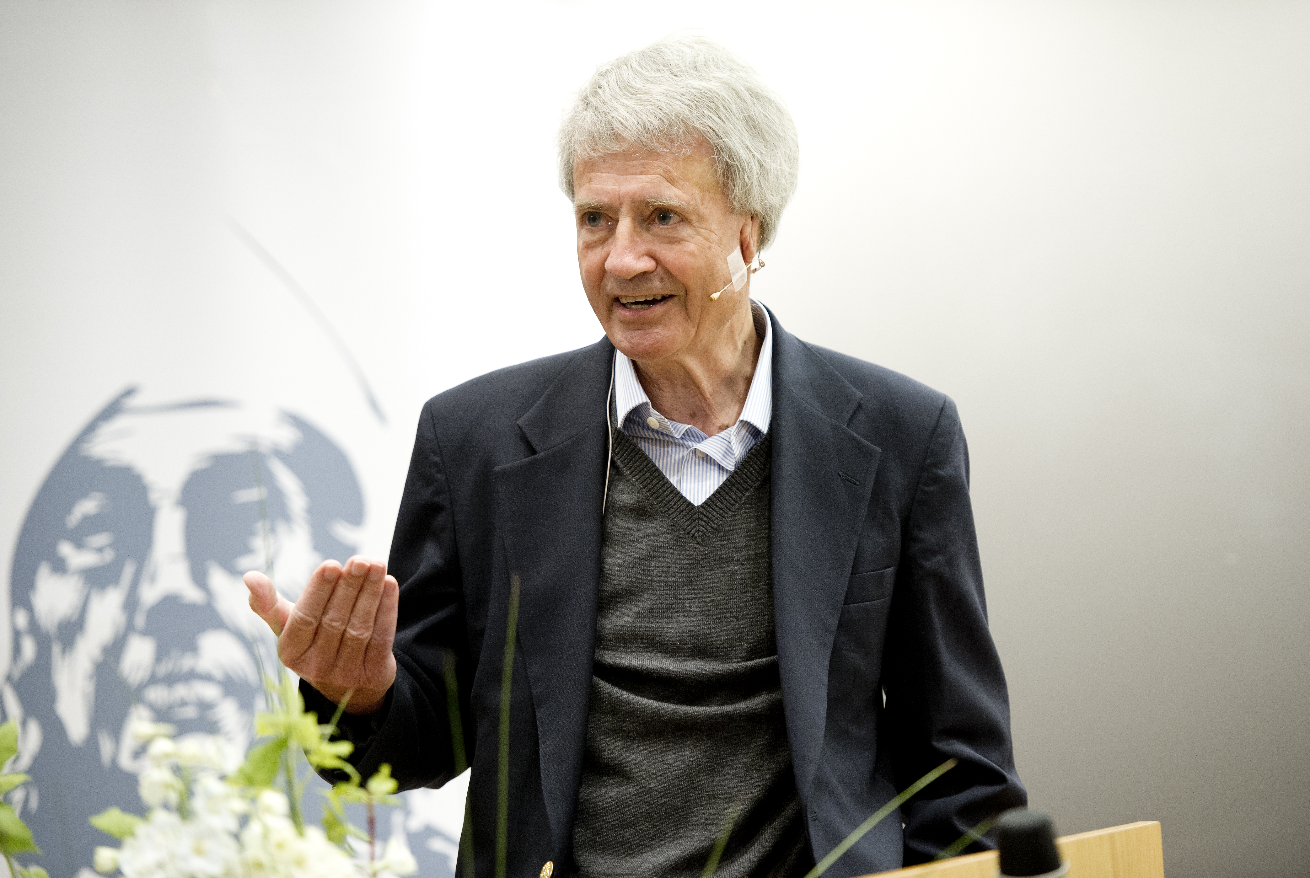 Michael Cook during the Holberg Symposium